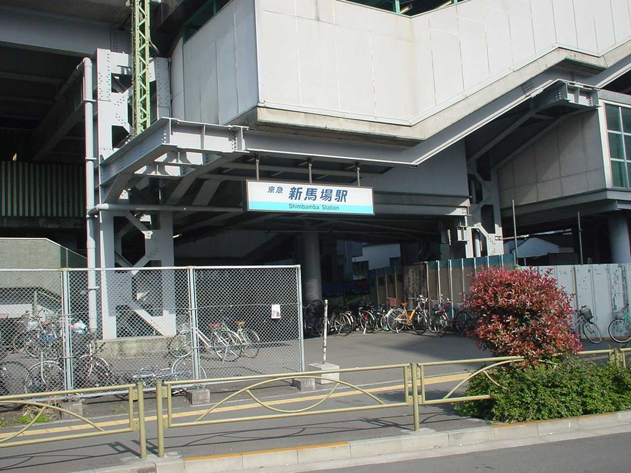 Shin Bamba station